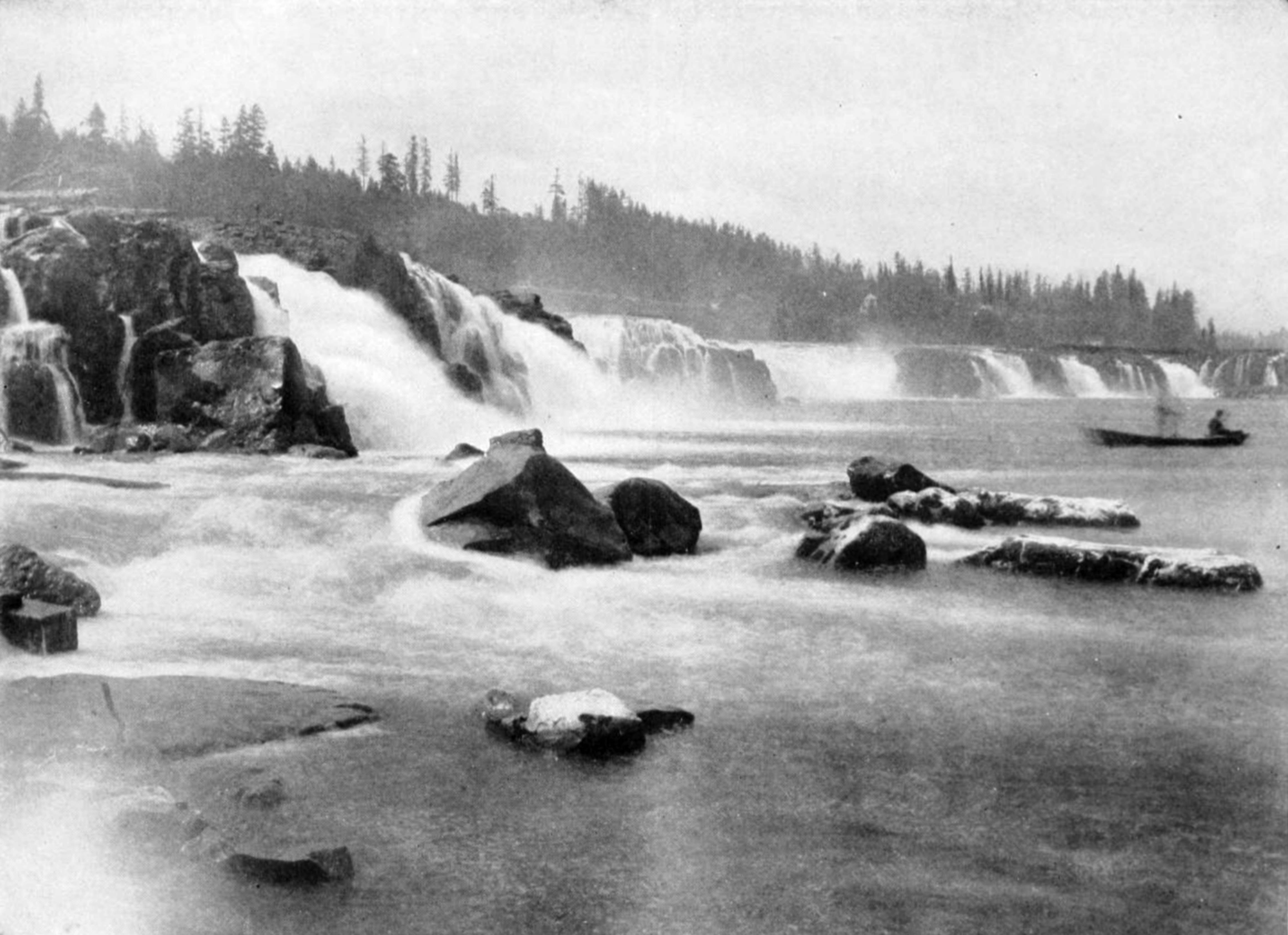 Photographer: E.H. Moorehouse. Willamette Falls, Oregon, USA